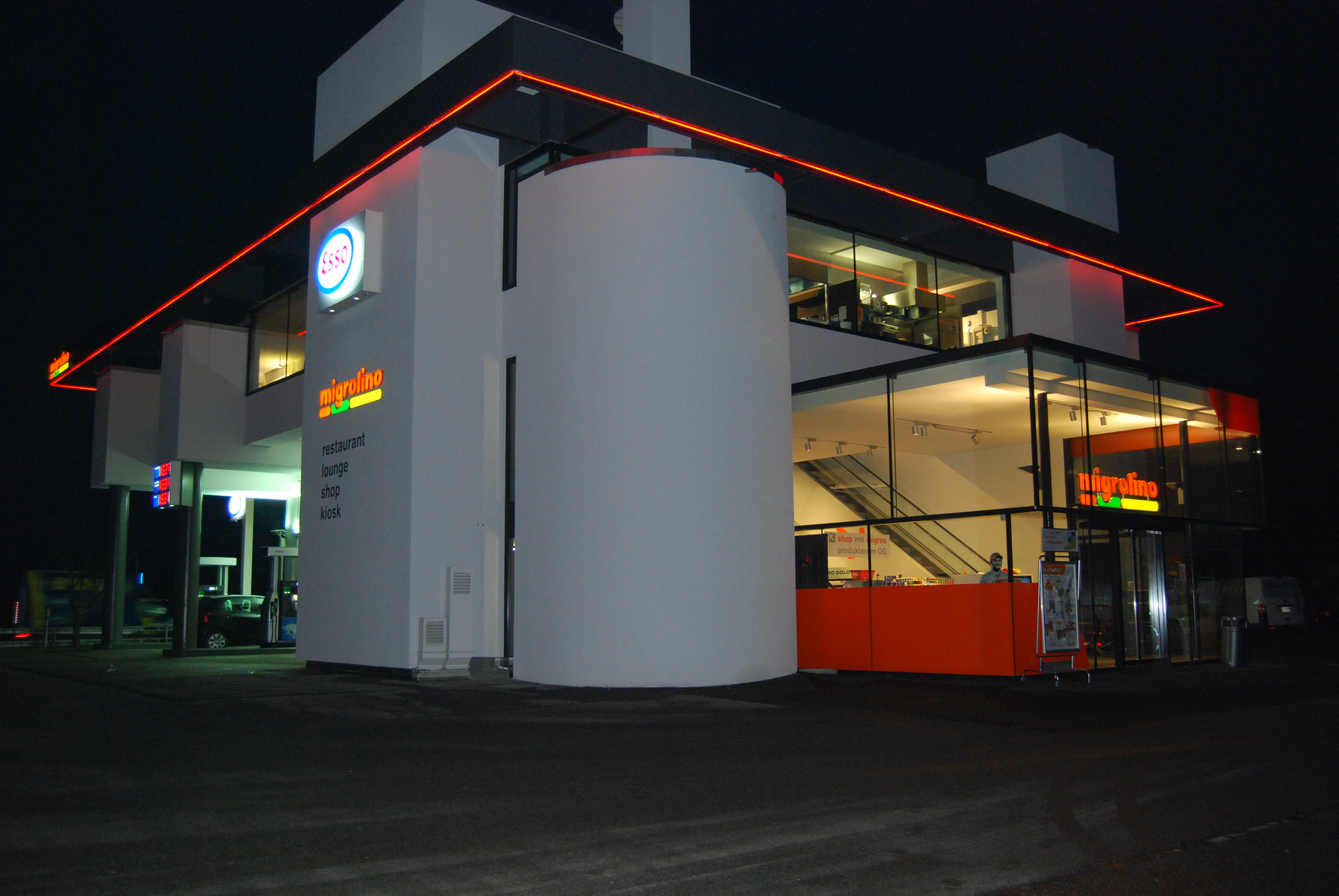 Highway restaurant Migrolino at Kölliken, canton of Aargau, SwitzerlandEsperanto: Aŭtovojrestoracio Migrolino en Kölliken, Kantono Argovio, Svislando